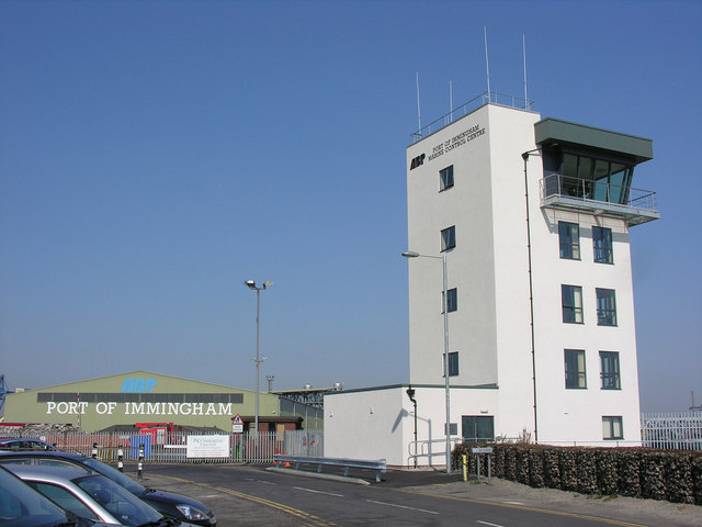 Immingham Marine Control Centre This recently-completed Marine Control Centre lies on the outer end of the lock on the downstream side, no doubt offering a fine view over the approaches to the port and nearby riverside jetties.